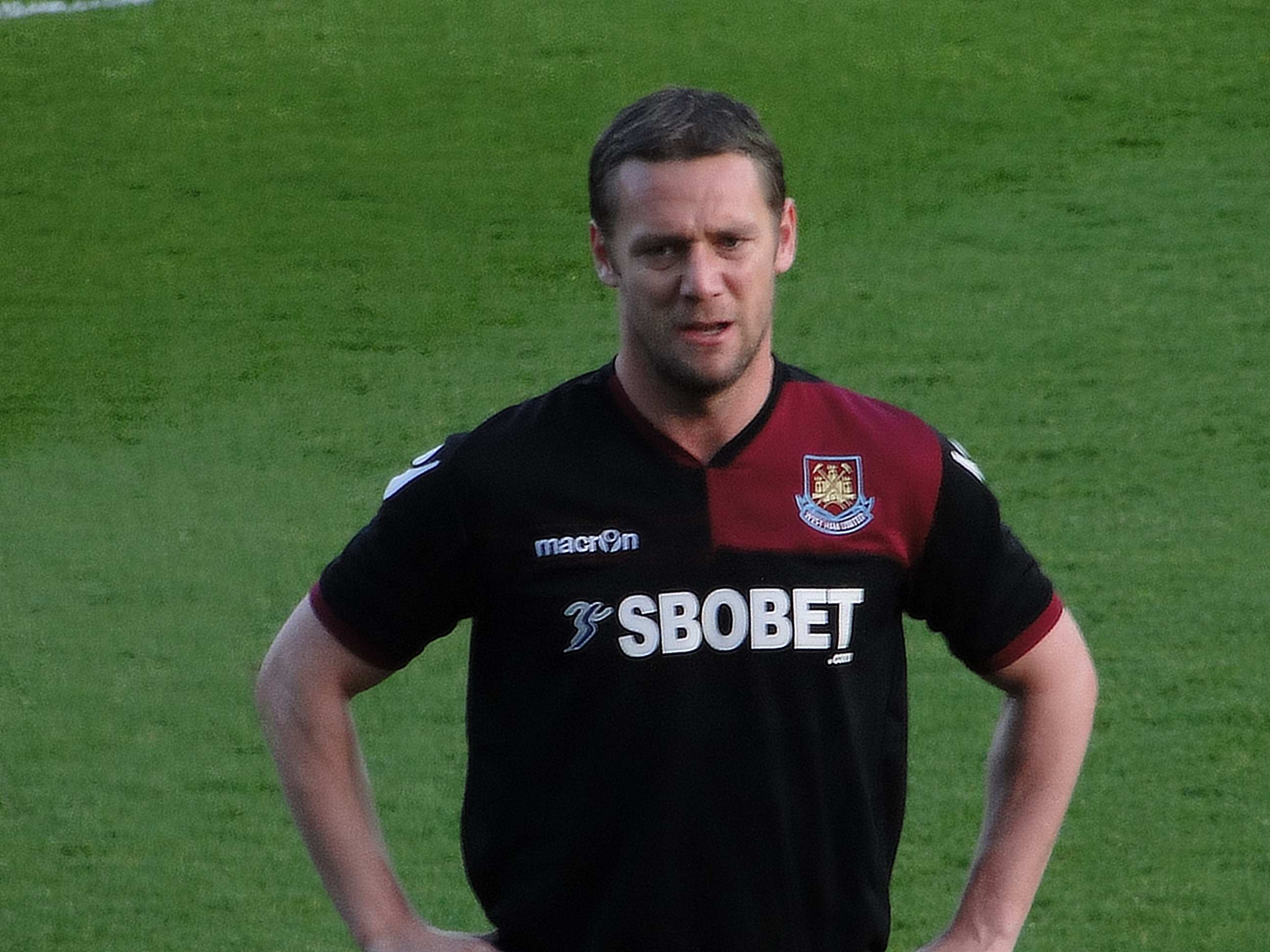 West Ham's captain, Kevin Nolan warming up before their game at Peterborough United's London Road ground.